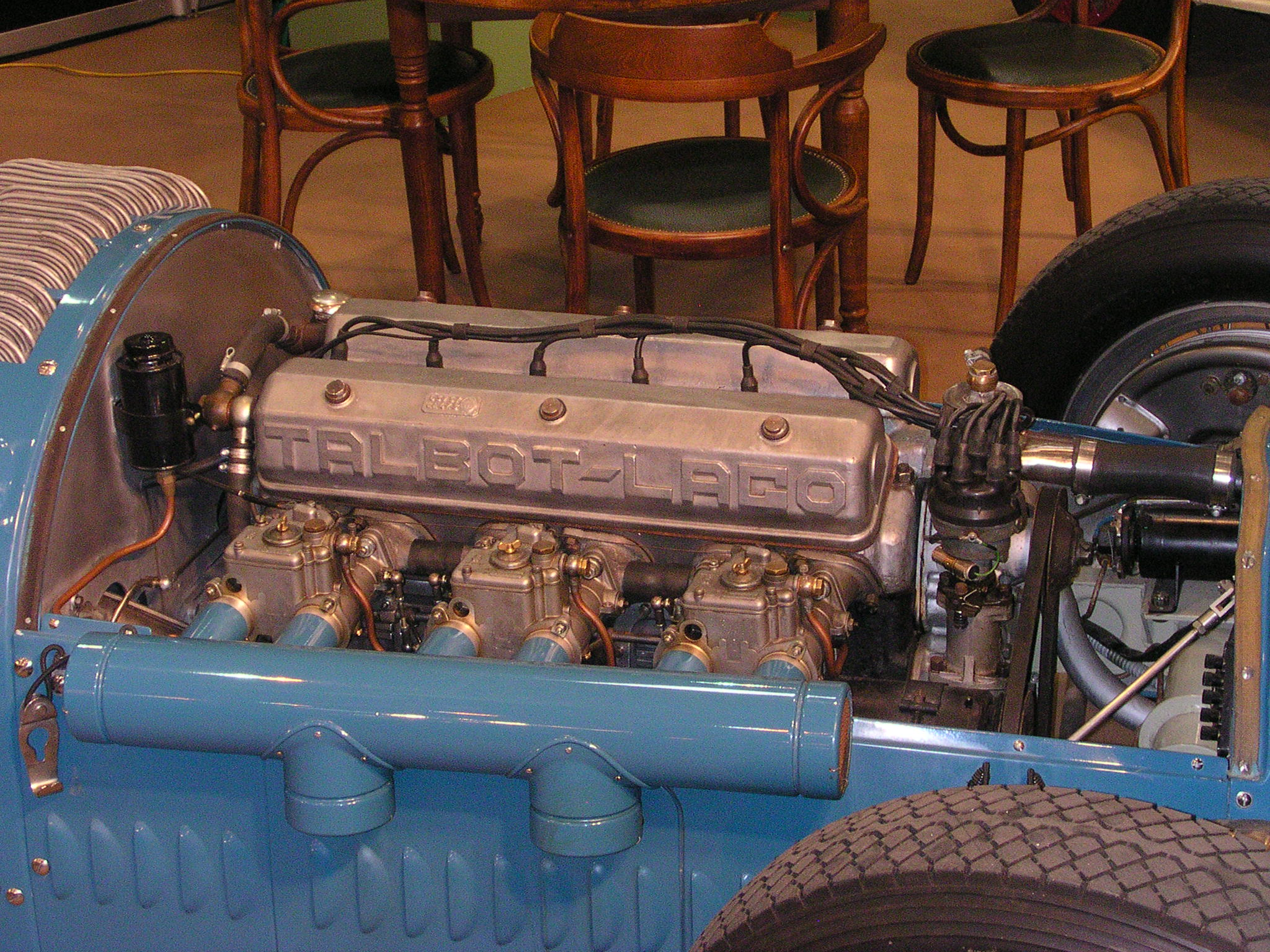 Essen Techno-Classica 2007, Talbot Lago T26 GS (Talbo L6 4.5l engine)